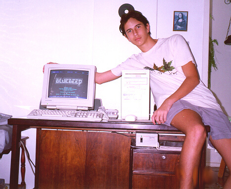 A happy Blue Beep user back in 1995